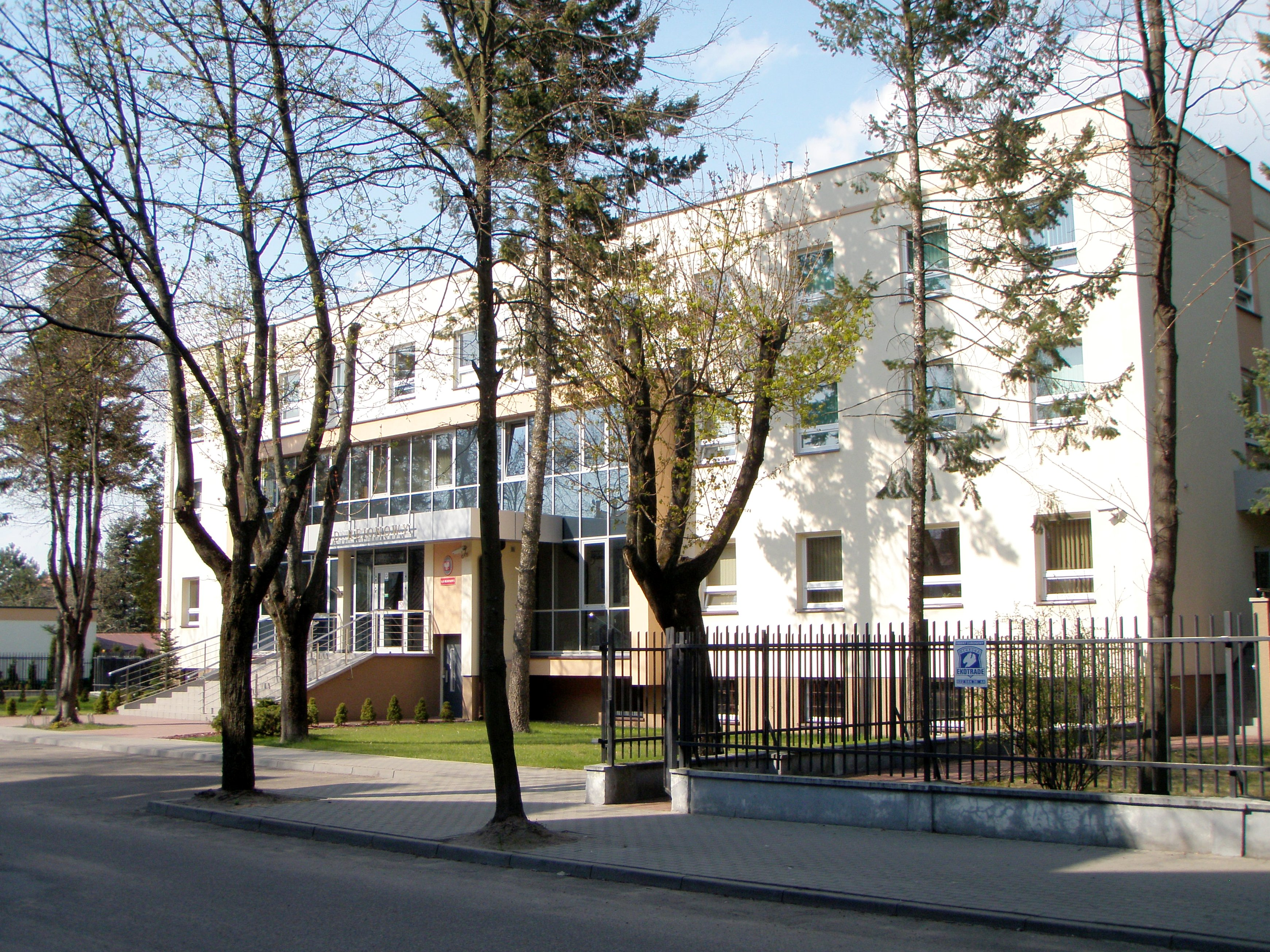 Court in Augustów, Poland.